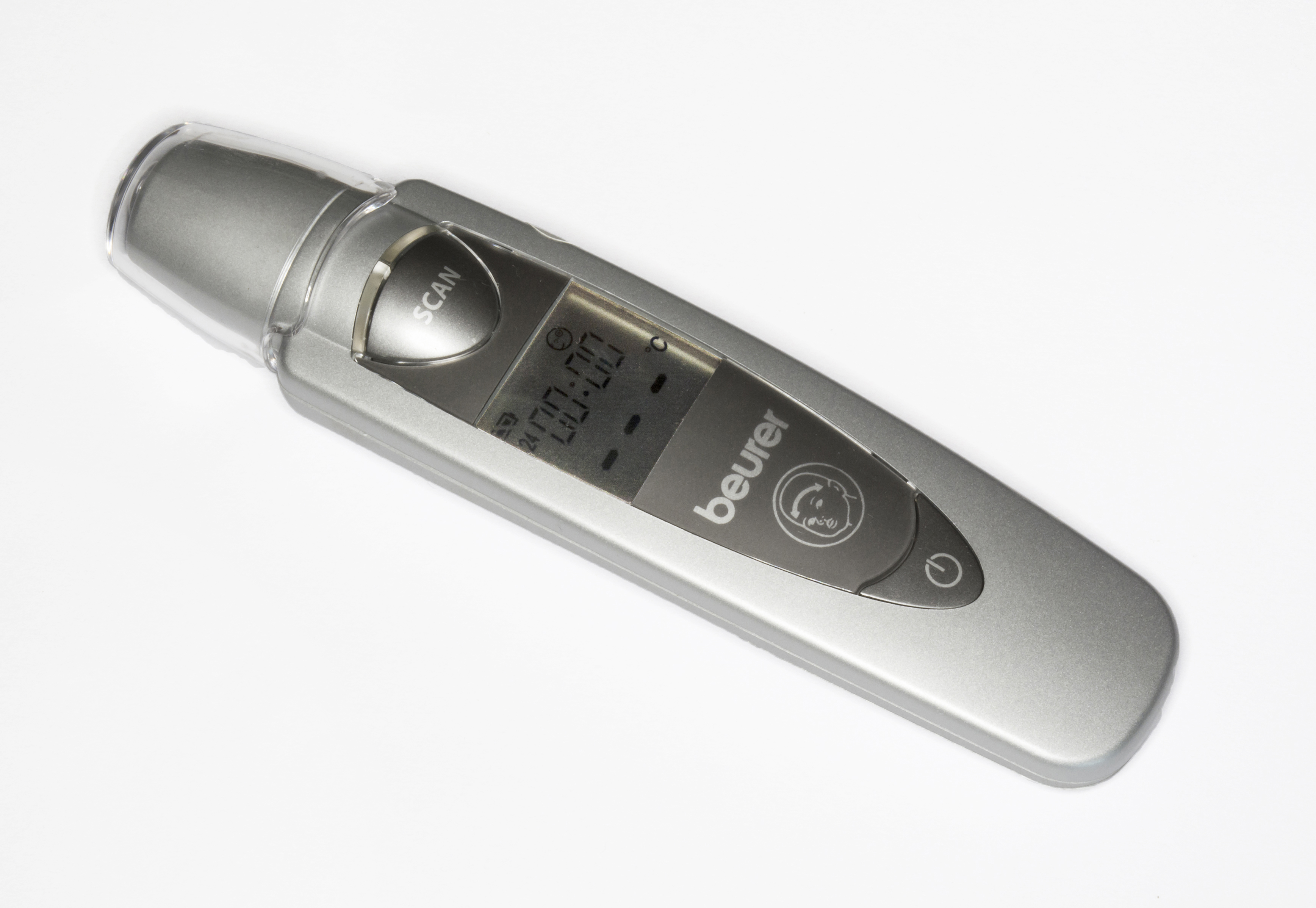 Electronic fever thermometer Beurer Medical FT60